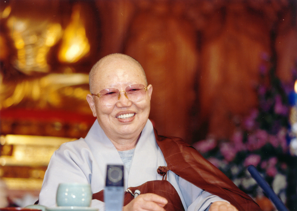 Daehaeng Kun Sunim during a Dharma talk